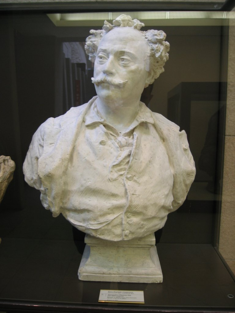 Photographie du buste d'Alexandre Dumas Fils par le sculpteur Jean-Baptiste Carpeaux au Musée d'Orsay de Paris